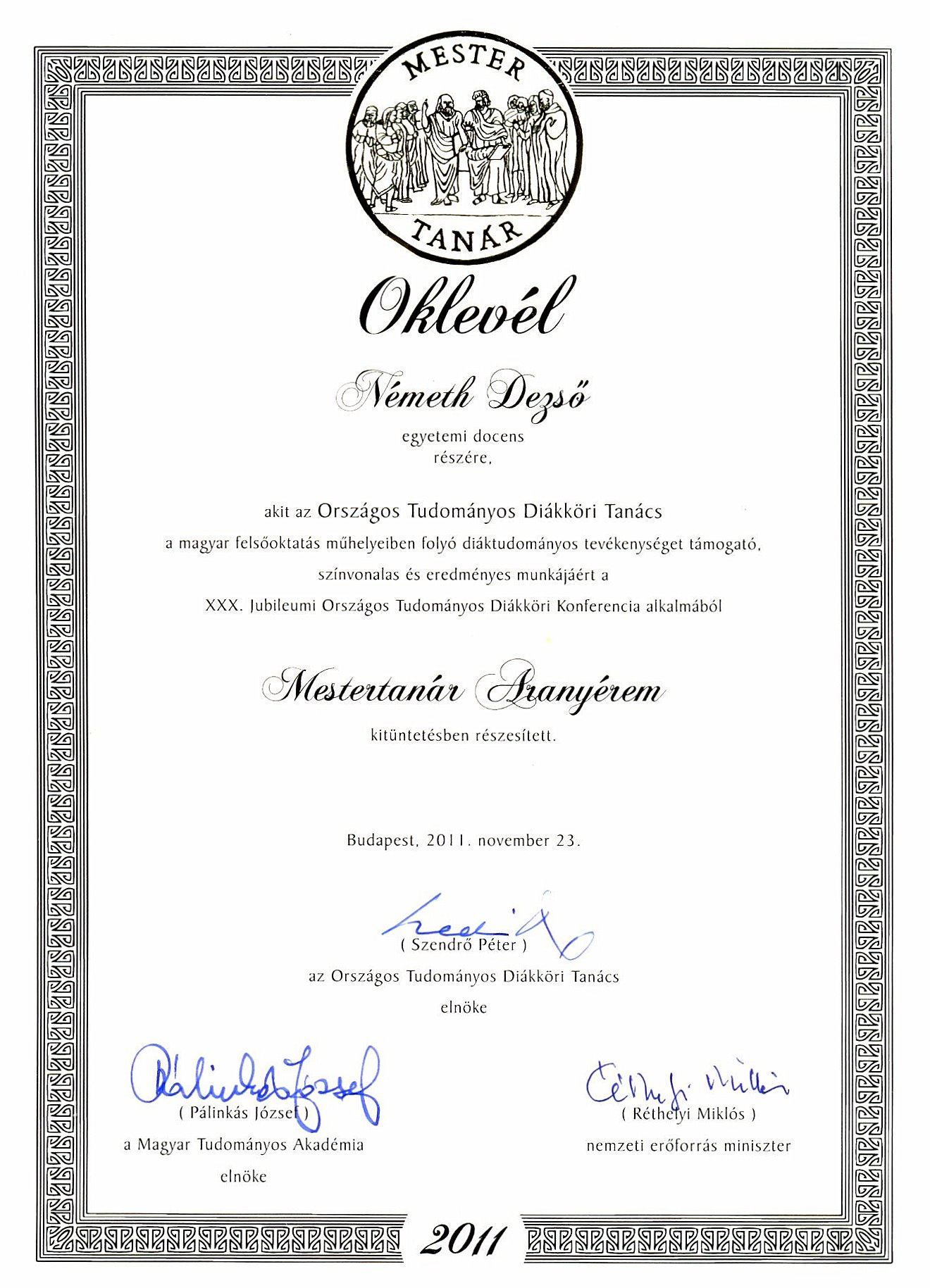 Diploma. Master Teacher Gold Medal of Dezső Németh (2011)